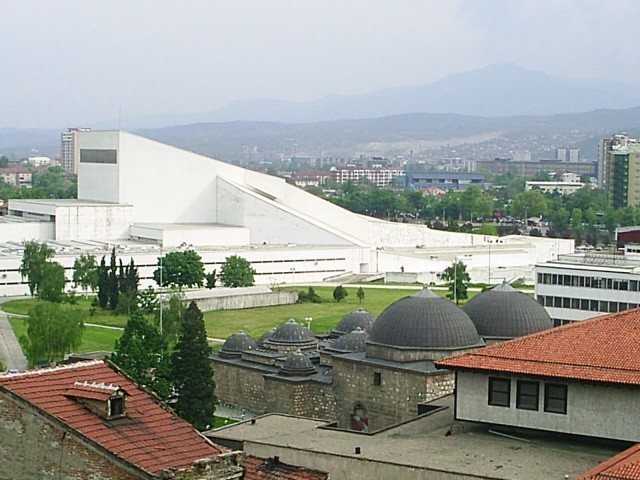 Skopje, capital of the Republic of Macedonia TF2-A0A3